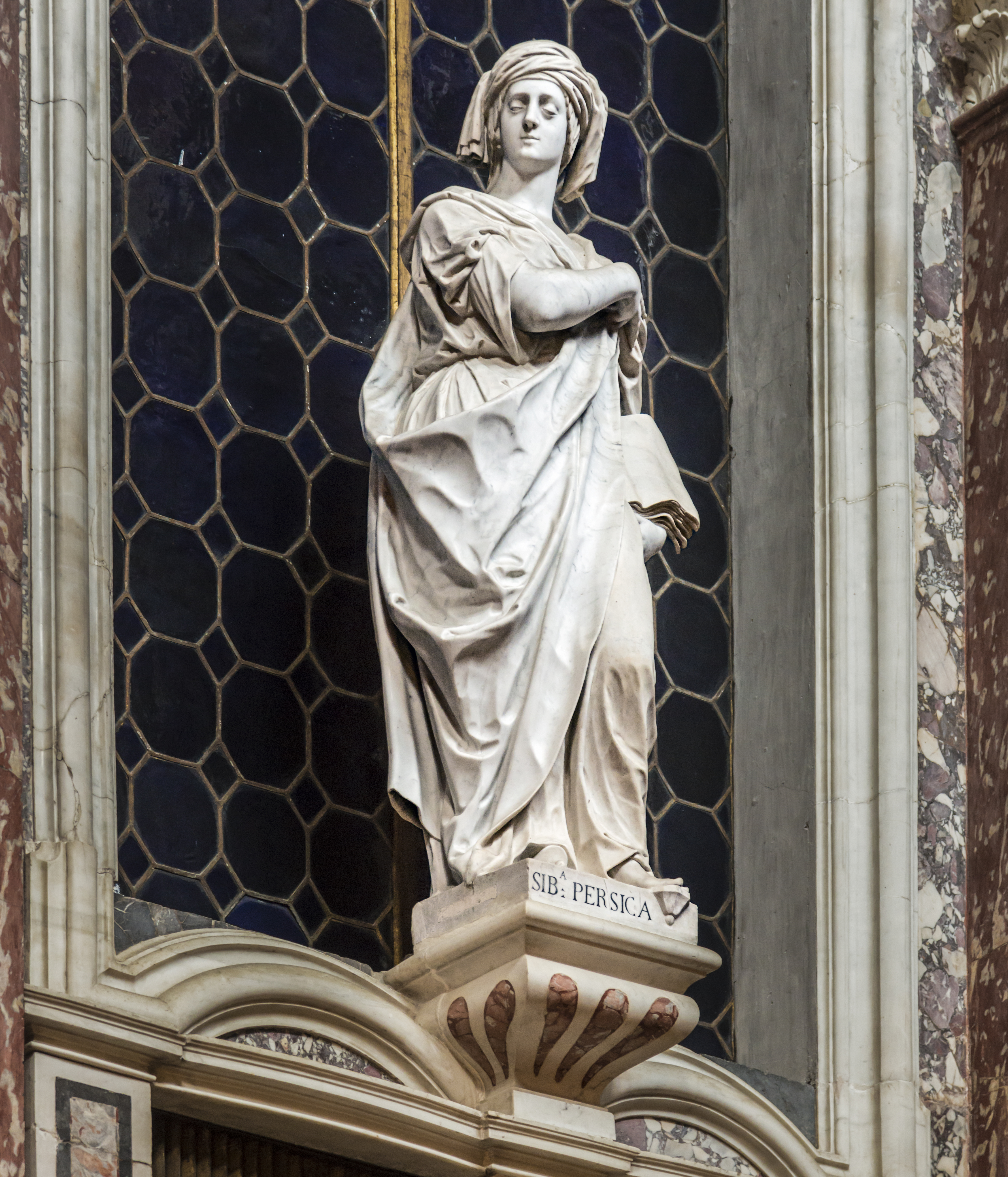 Church Santa Maria degli Scalzi Venice. Persian Sibyl, by Giuseppe Torretto.